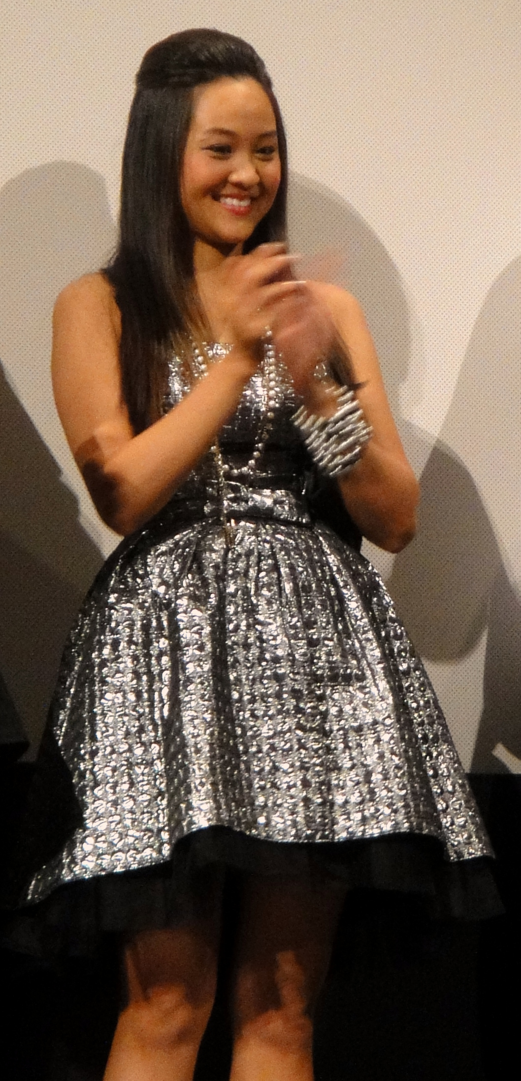 Singaporean actress Cheryl Chin at the Austin Film Society with the cast of Machete in 2010